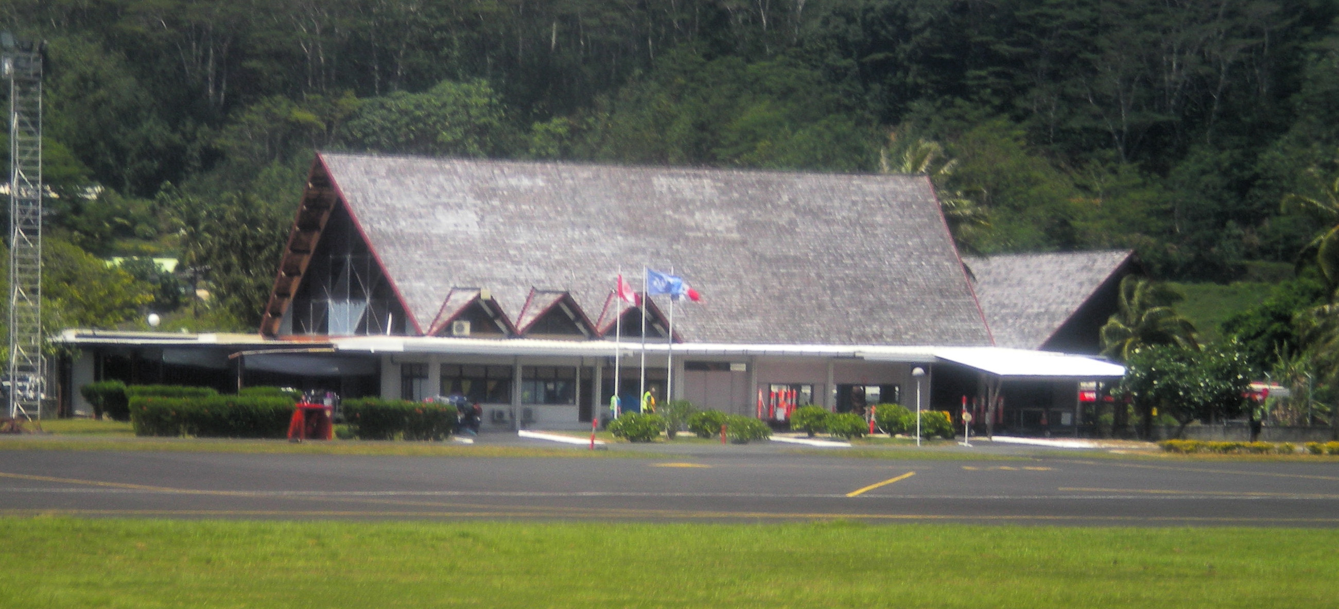 Raiatea Airport terminal.